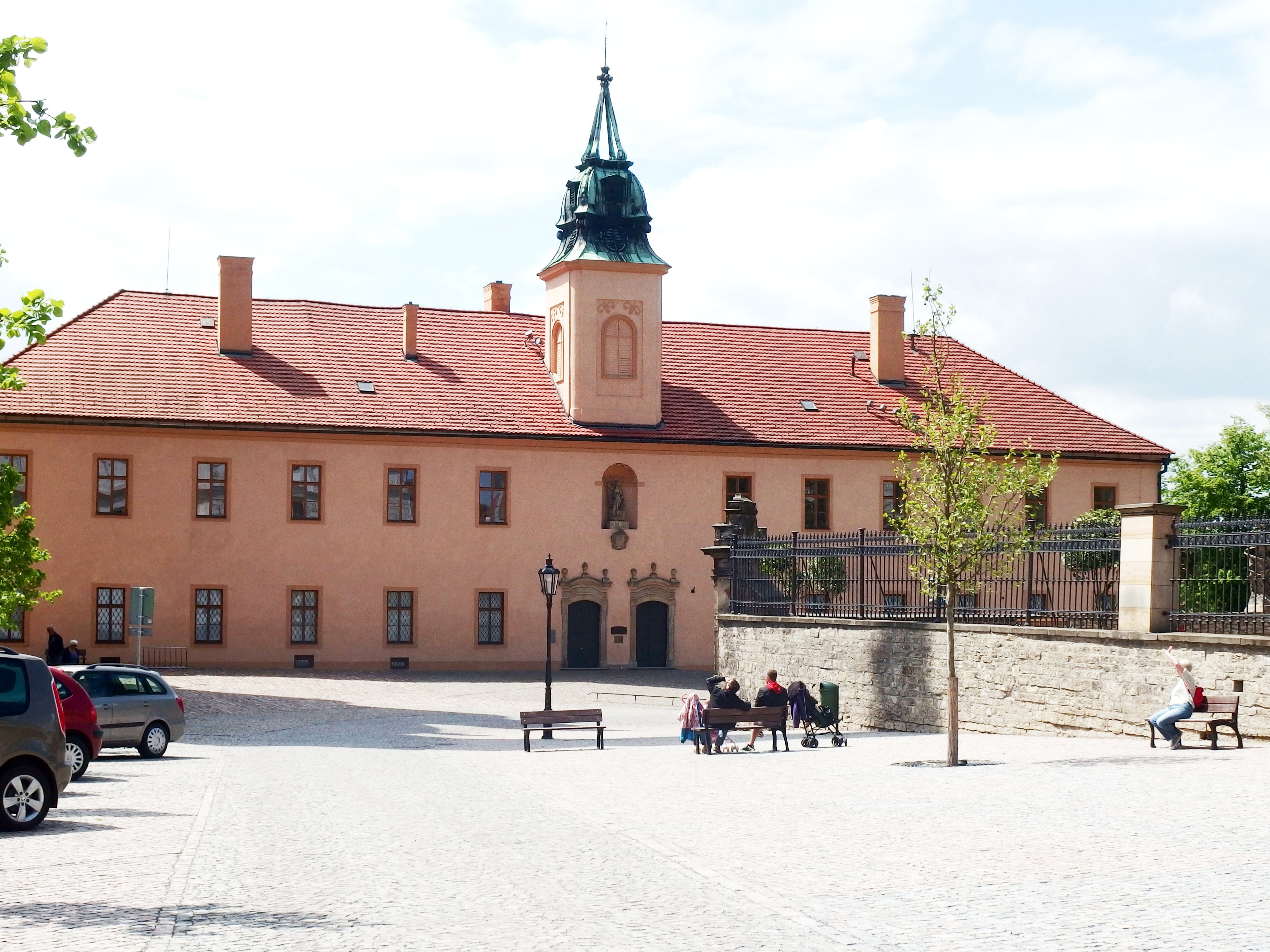 Litomyšl, Svitavy District, Czech Republic.